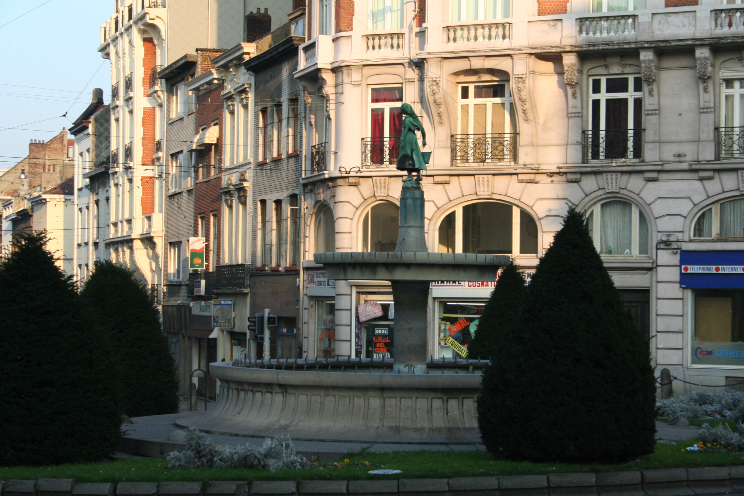 Saint-Gilles (Belgium), the fountain of the "Barrière" roundabout.